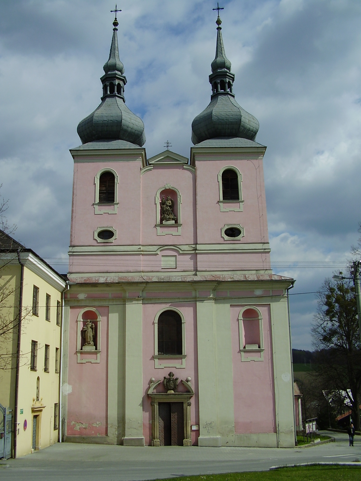 Pilgrime Church of the Visitation of our Lady in Zašová (Czech republik)